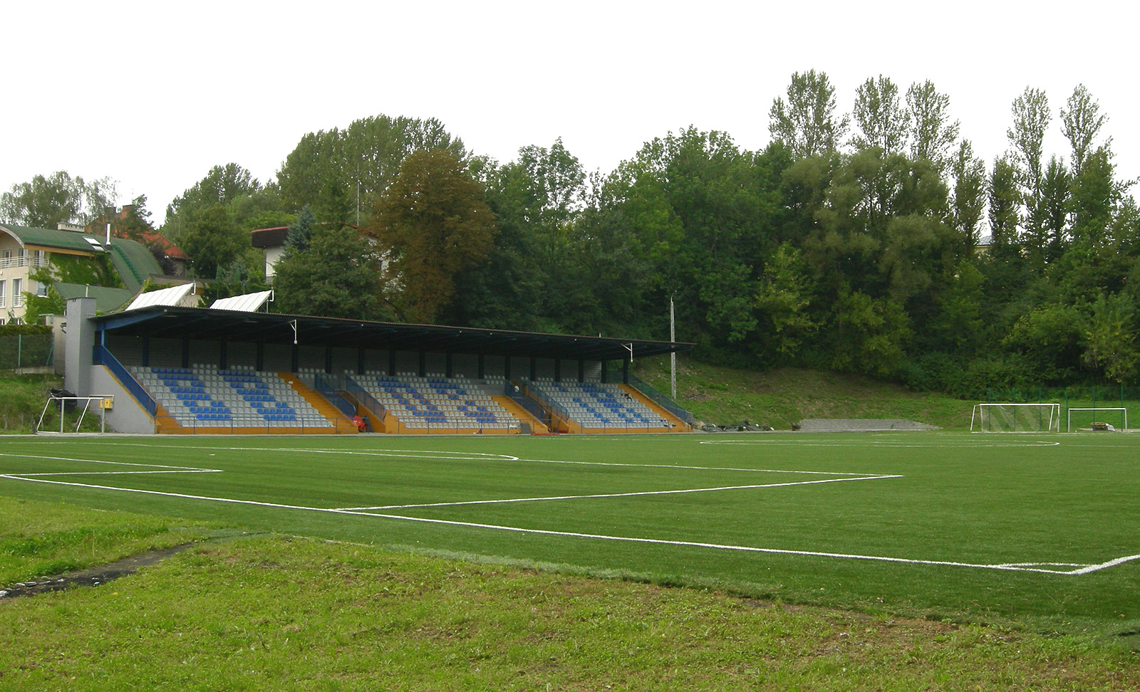 Stadion na Górce in Bielsko-Biała.